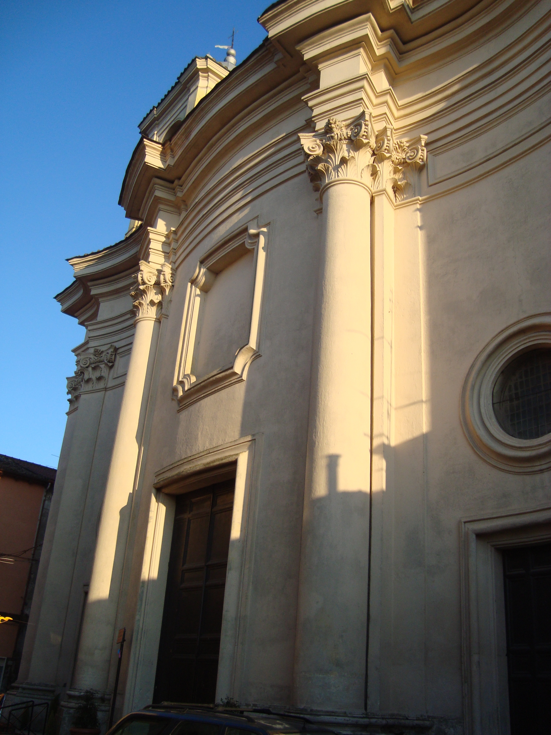 Duomo San Pietro (1717-1722) in Zagarolo